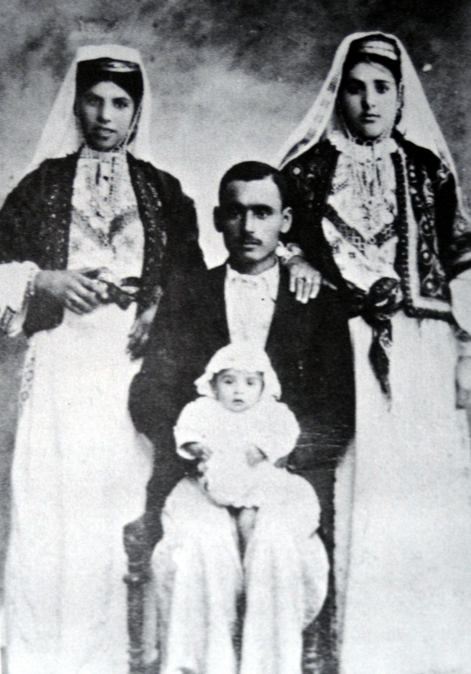 Villagers from Deir Yassin, 1927. Building contractor Haj Ahmad al-As'ad with his son Muhammad, his wife (resting her hand on his shoulder), and a relative.